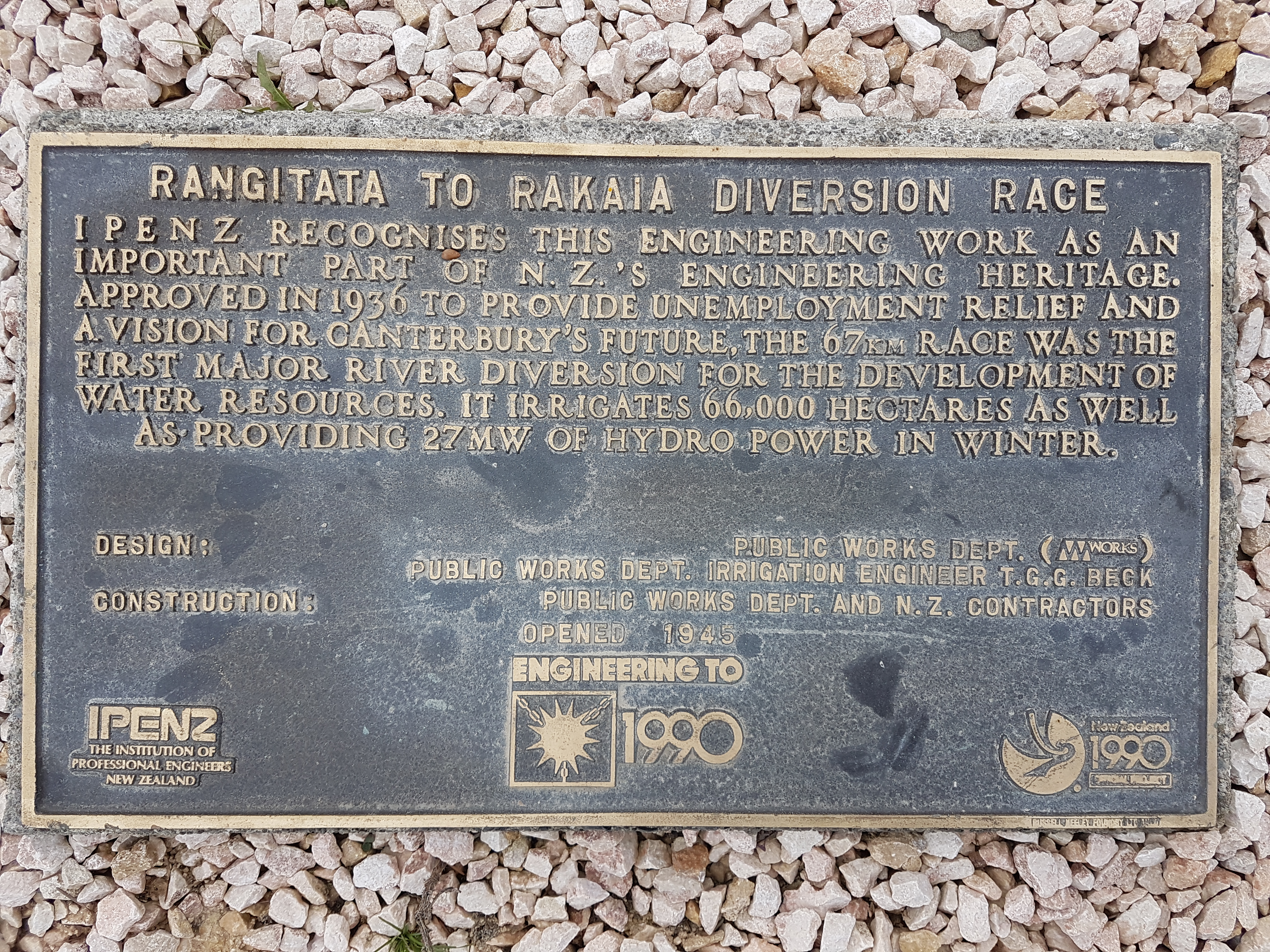 This image forms part of a series showing aspects of the canal and associated structures that were constructed to divert water from the Rangitata river for irrigation and power generation purposes. The canal terminates at the Highbank power station which releases the water into the Rakaia river.